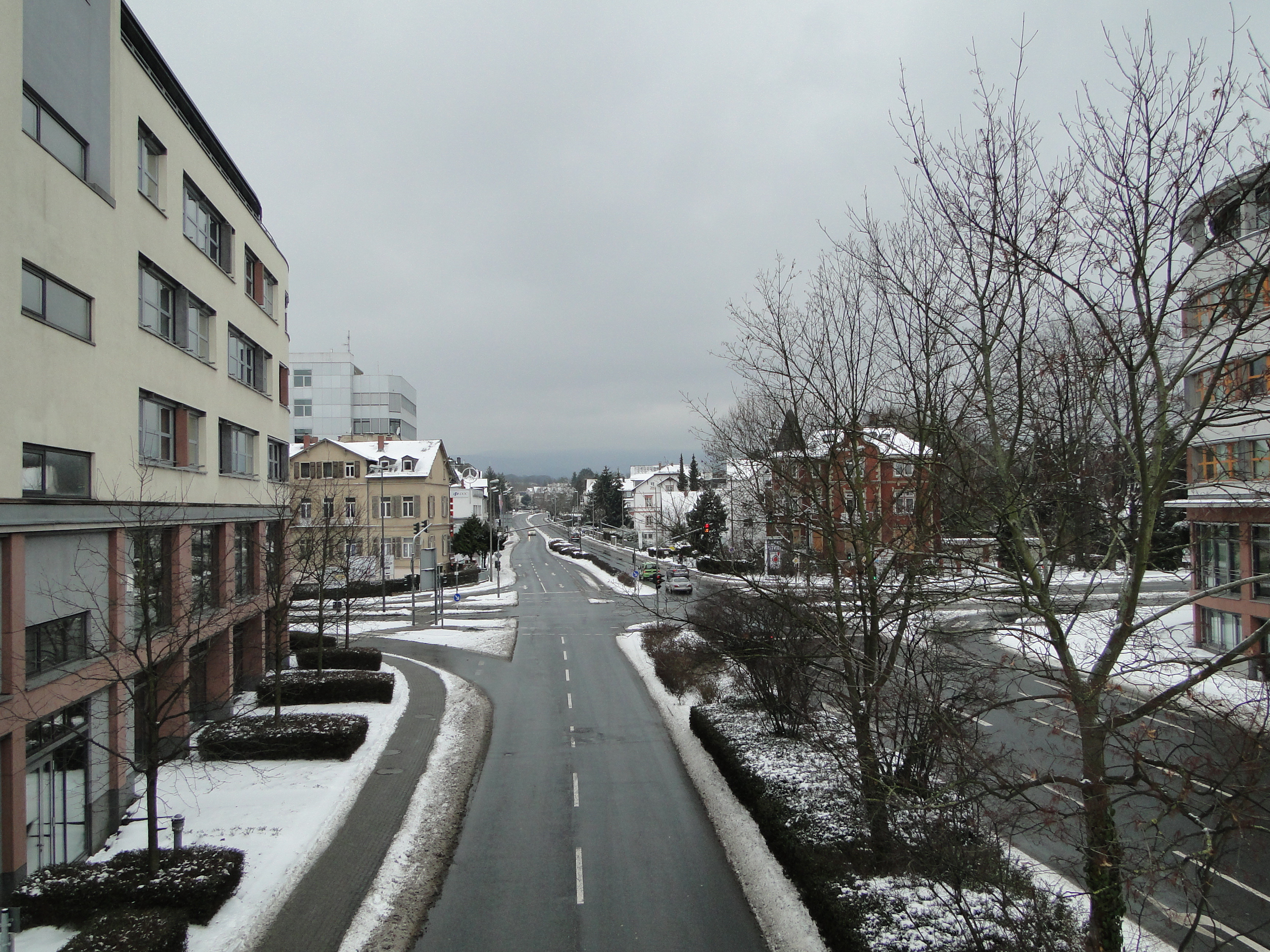 The "Hessenring", an arterial road from and to the motorway "A 661" in Bad Homburg, Hesse, Germany. View, from footbridge at "Bahnhofstrasse", into the city.